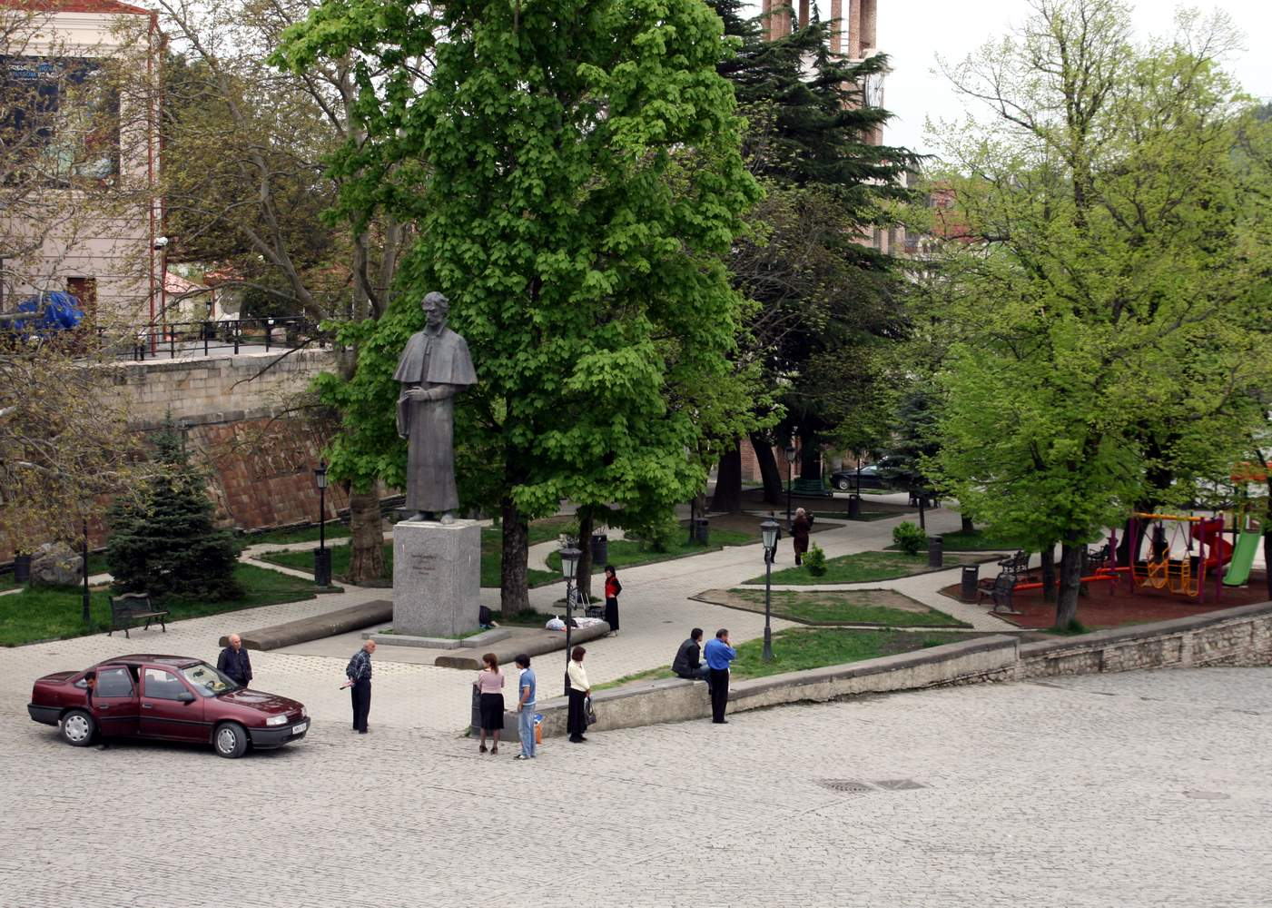 Signagi. April 9 Park & Dodashvili statue